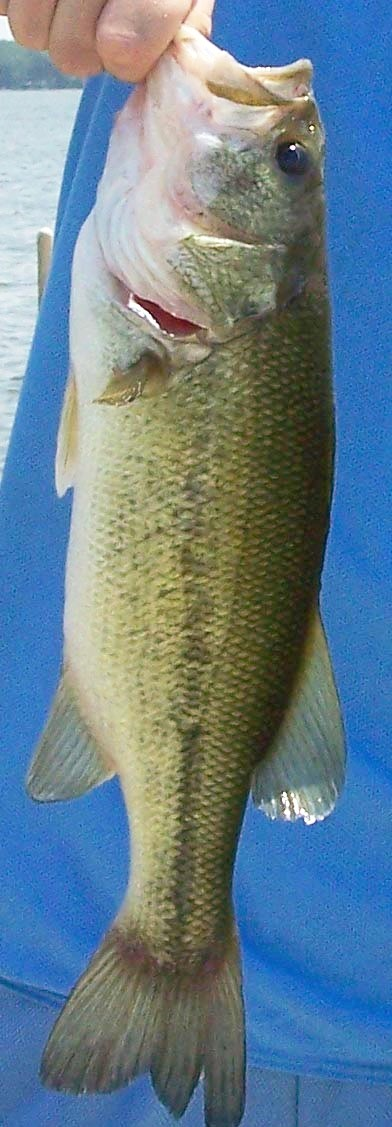 John Thorson of St. Paul Minnesota with a largemouth bass caught and released in Forest Lake in Forest Lake.